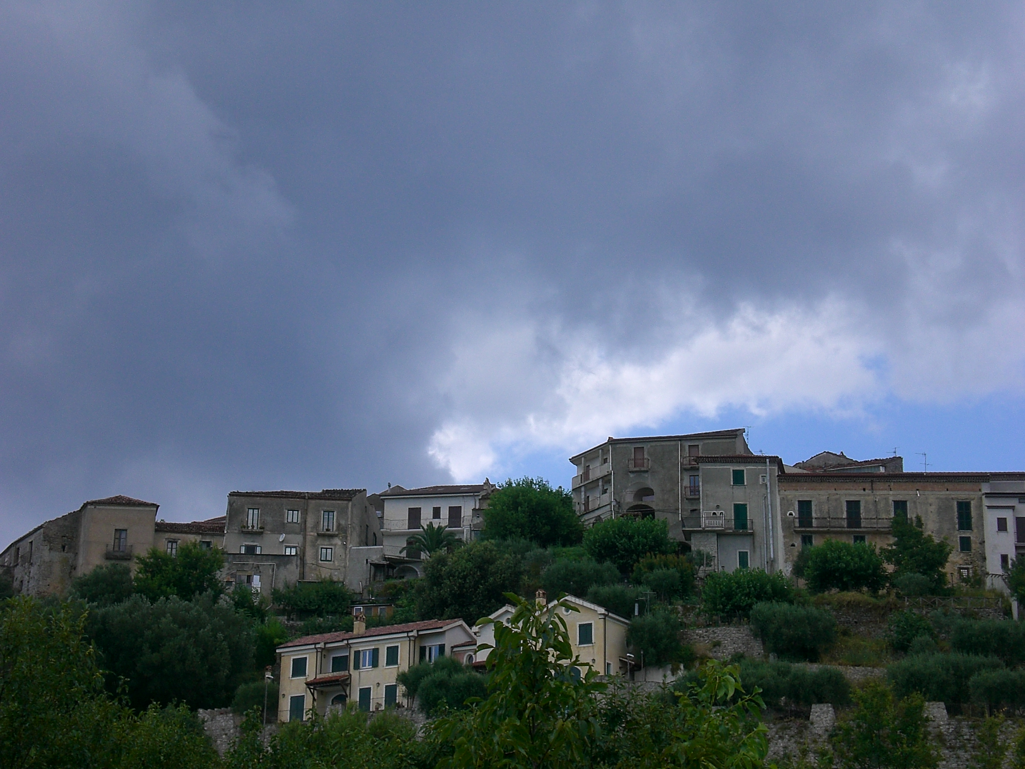 View of Tortorella